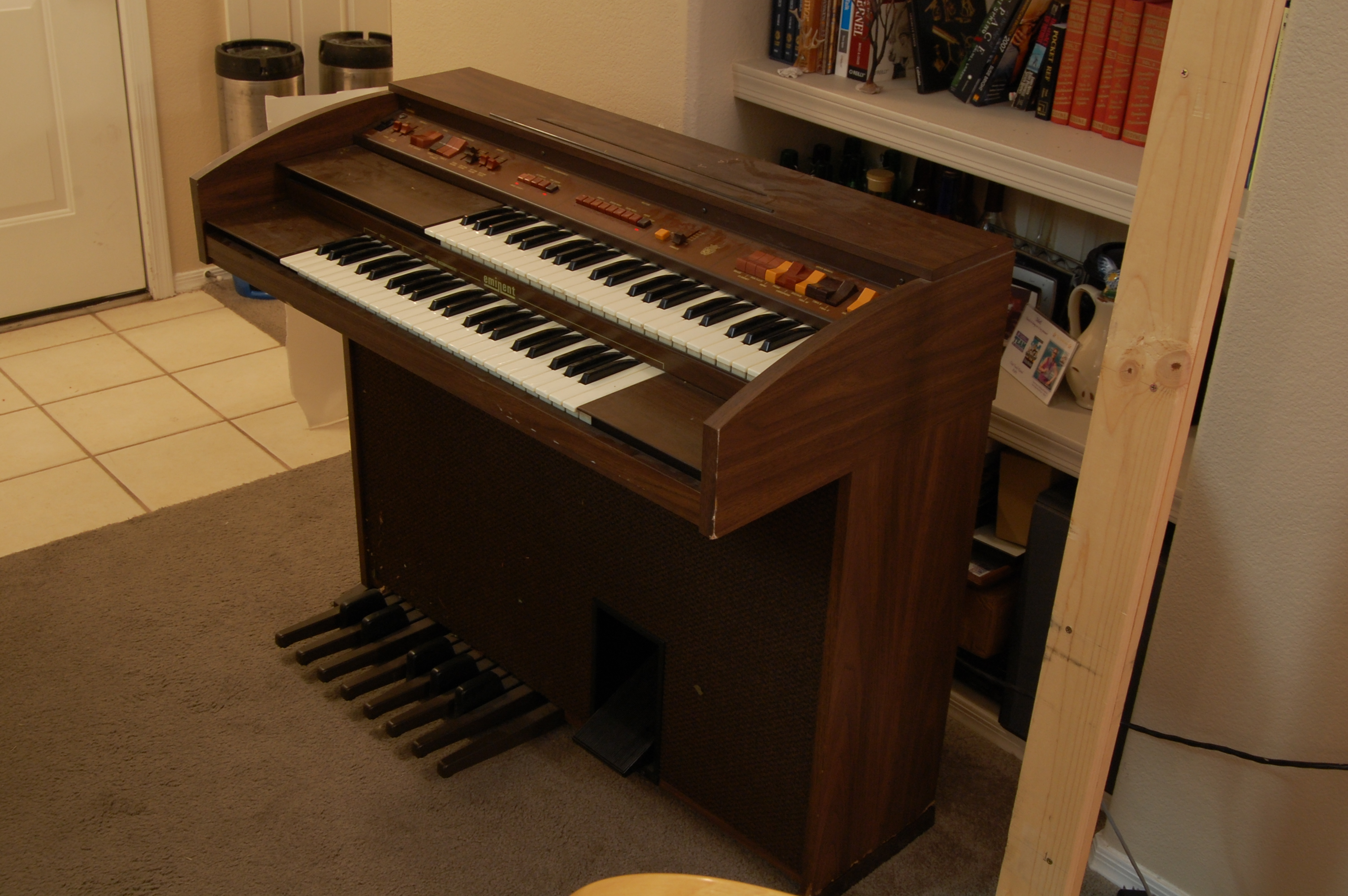 I found this out by the curb at my apartment complex this afternoon. Lets see whats inside...